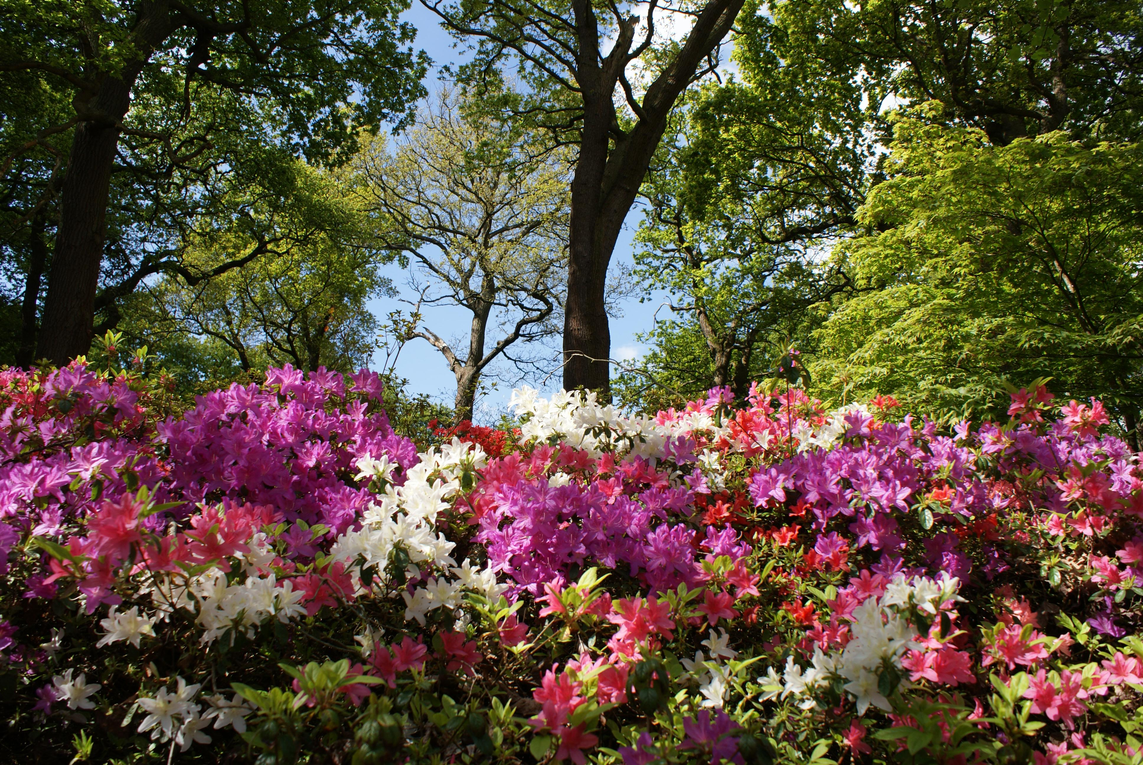 Azaleas in magenta, peach, pink and white at the UK national Azalea collection in the Isabella Plantation, Richmond Park, Surrey. Forest trees including Oak are just coming into leaf in the background.